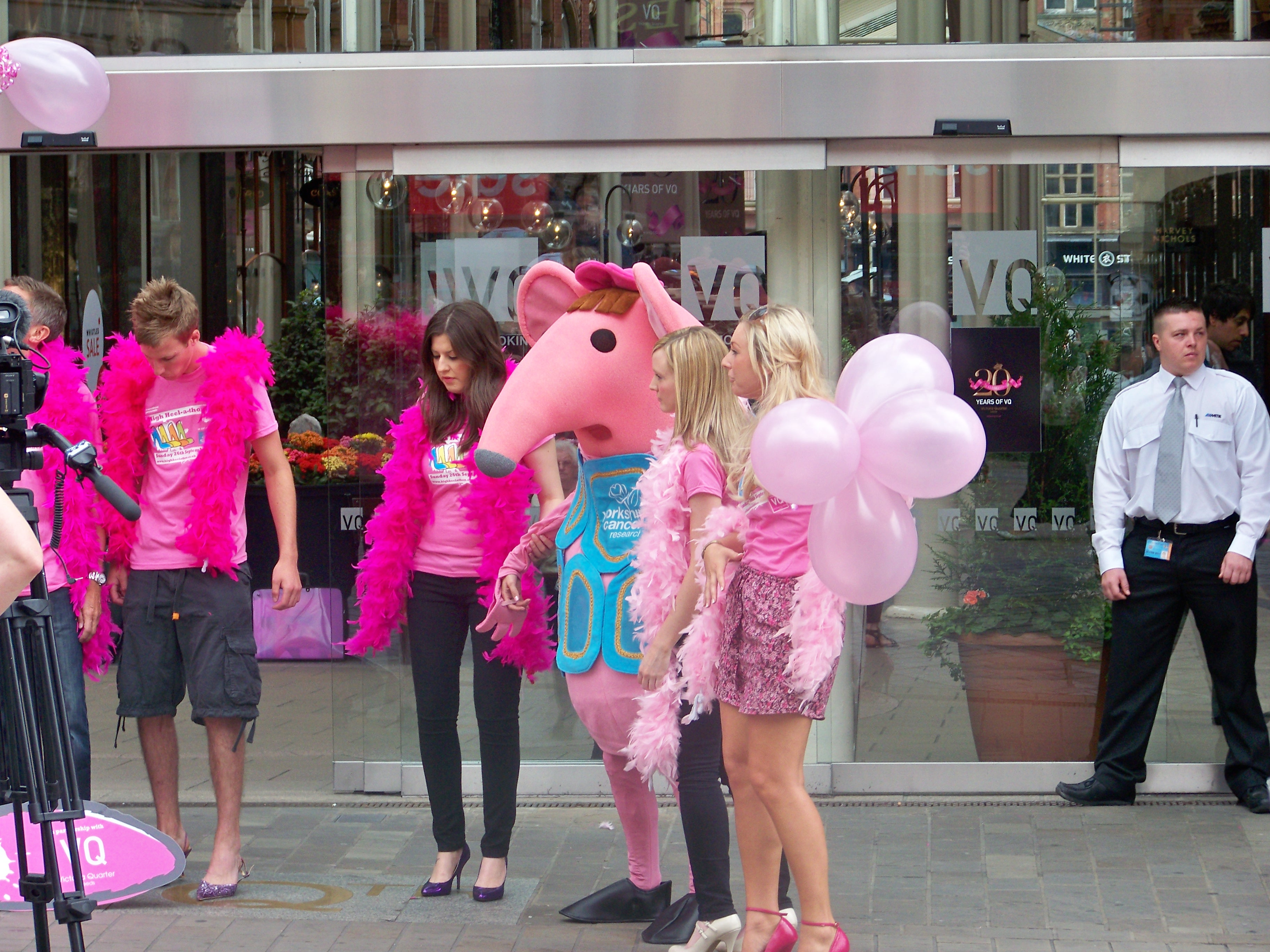 I never knew Clangers went shopping at Harvey Nichols! A clanger outside the Briggate side of Victoria Quarter in Leeds, West Yorkshire. This is all part of a 'High-Heel-a-thon' by Yorkshire Cancer Research. Taken on the afternoon of Thursday the 24th of June 2010.